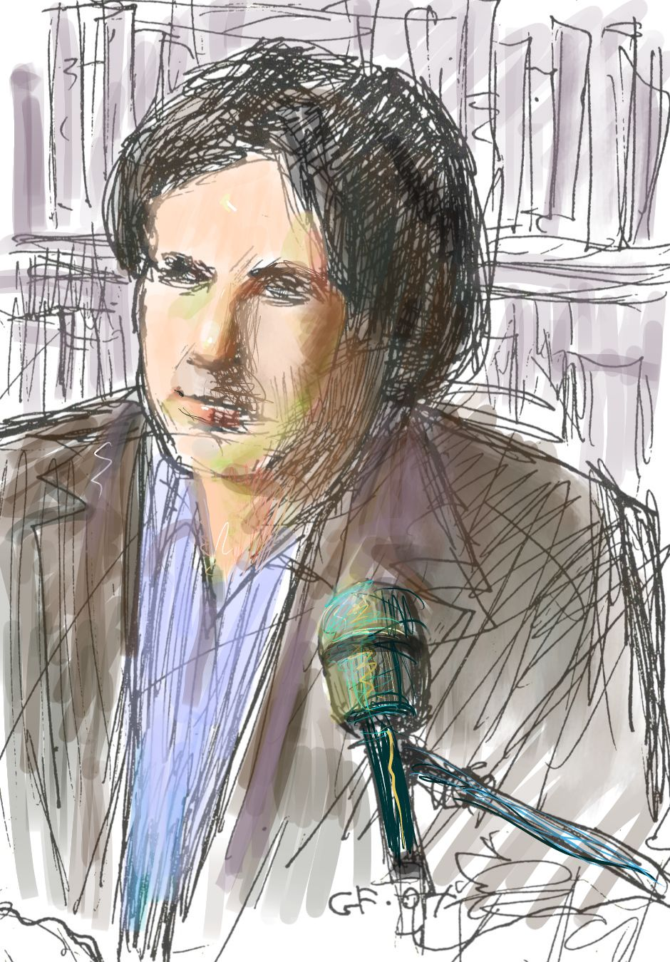 Mark Satin speaking about his book Radical Middle: The Politics We Need Now (2004) at Elliott Bay Book Co., Seattle, October 17, 2004. Parts of the event were contentious and Satin is shown here defending his views. The line drawing was done "in the moment" by Gary Faigin, co-founder and Artistic Director of the Gage Academy of Art in Seattle. Color was added by Faigin in 2017.